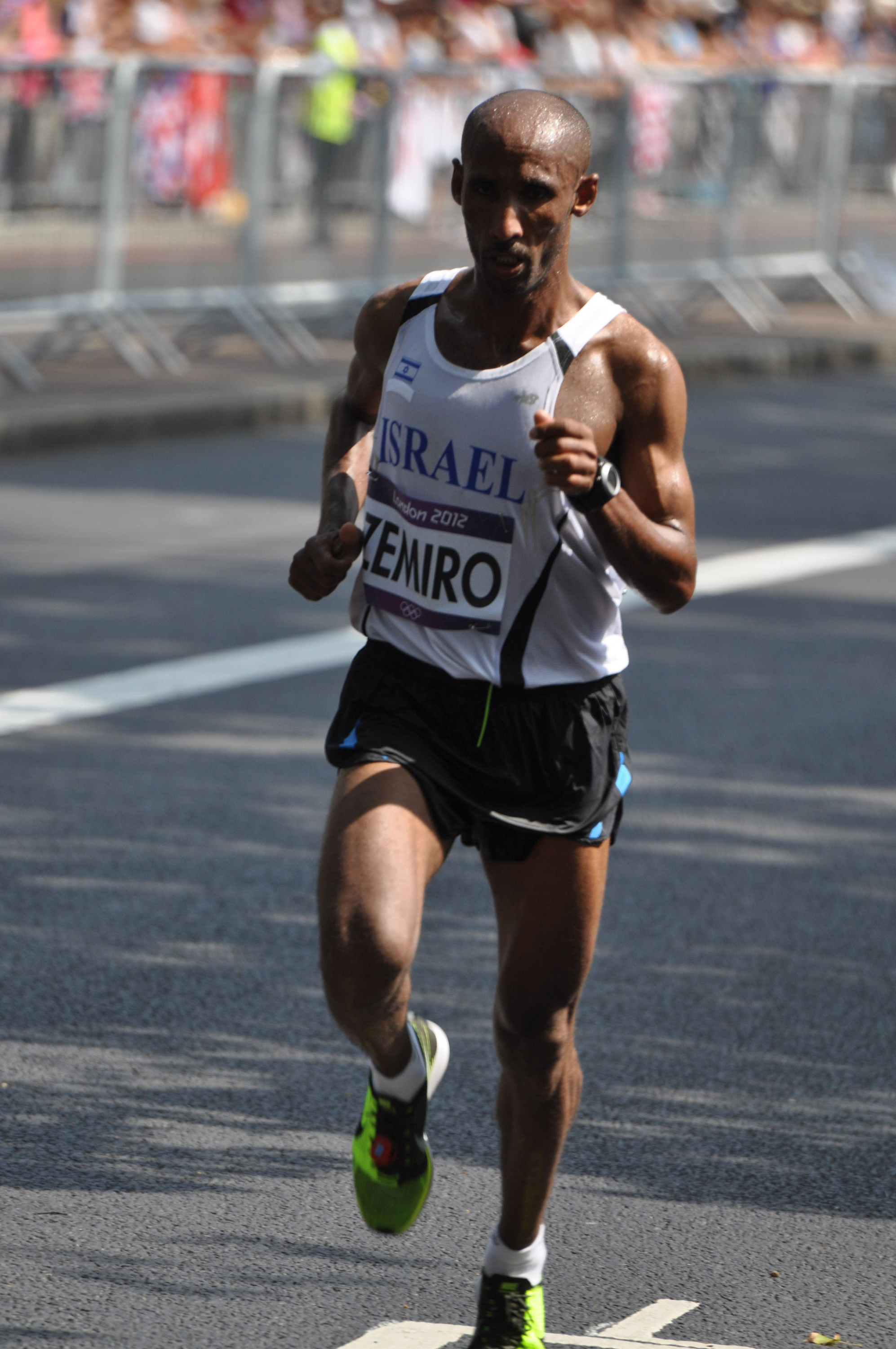 The men's marathon of the 2012 Summer Olympics in London, UK took place on an Olympic marathon street course on Sunday 12th August 2012 at 11:00. This was the final day of the 30th Olympic Games. The London 2012 marathon course is the standard Olympic distance of 26 miles 385 yards and consists of one short lap of approx 2.2 miles followed by three longer laps of 8 miles. The course began on The Mall and travelled past several of the most famous London landmarks. The start/finish line was near the Victoria Memorial. These photographs were taken at the Victoria Embankment. This featured several times on the looped course. The approximate location from the photographs is shown in the Google StreetView Link below. Stephen Kiprotich won in 2 hours, 8 minutes, 1 second as he pulled away from the Kenyan duo of Abel Kirui and Wilson Kiprotich Kipsang. These photographs are unofficial photographs. They are not endorsed by London 2012. There are not commercially available. They are available for use under a Creative Commons License. Please link back to the photograph on my Flickr account if you use the image.